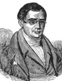 Illustration from The correct, full and impartial report of the trial of Rev. Ephraim K. Avery